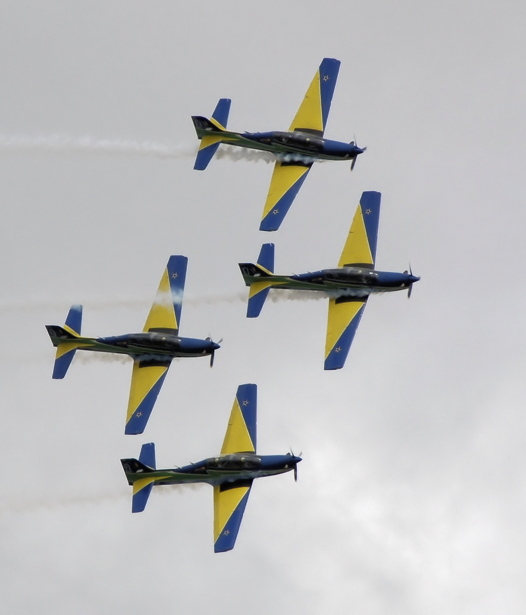 Esquadrilha da Fumaça (the Brazilian Air Force display team), also known as the Smoke Squadron, during practice at the Royal International Air Tattoo, Fairford, Gloucestershire, England. This picture was taken at RIAT Fairford on the Thursday before the weekend show days. Later both show days (Saturday and Sunday) were cancelled because of waterlogged car parks. Photographed by Adrian Pingstone in July 2008 and placed in the public domain.